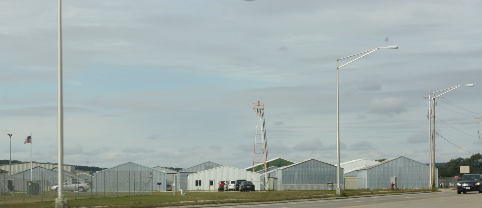 The Prairie du Chien Municipal Airport along Wisconsin Highway 35 / U.S. Route 18.